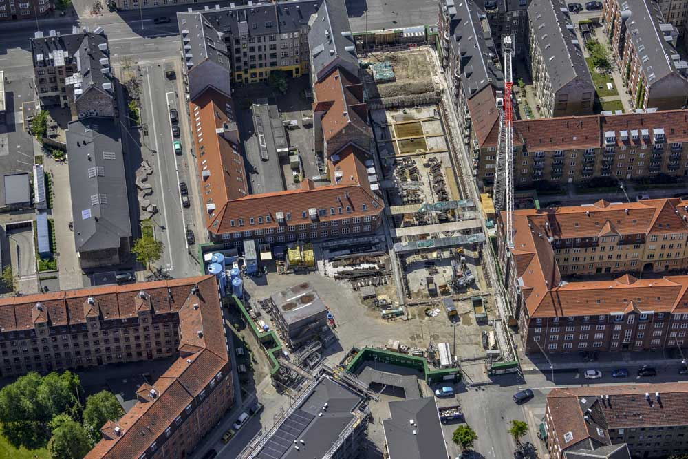 Air photo of the City Circle Line being built, part of the Copenhagen Metro. I got the following permission to use these images from kjeld madsen on 2014-10-07: Dragør Luftfoto ApS frigiver hermed billederne i galleriet under licensen Creative Commons Attribution ShareAlike 3.0 license.